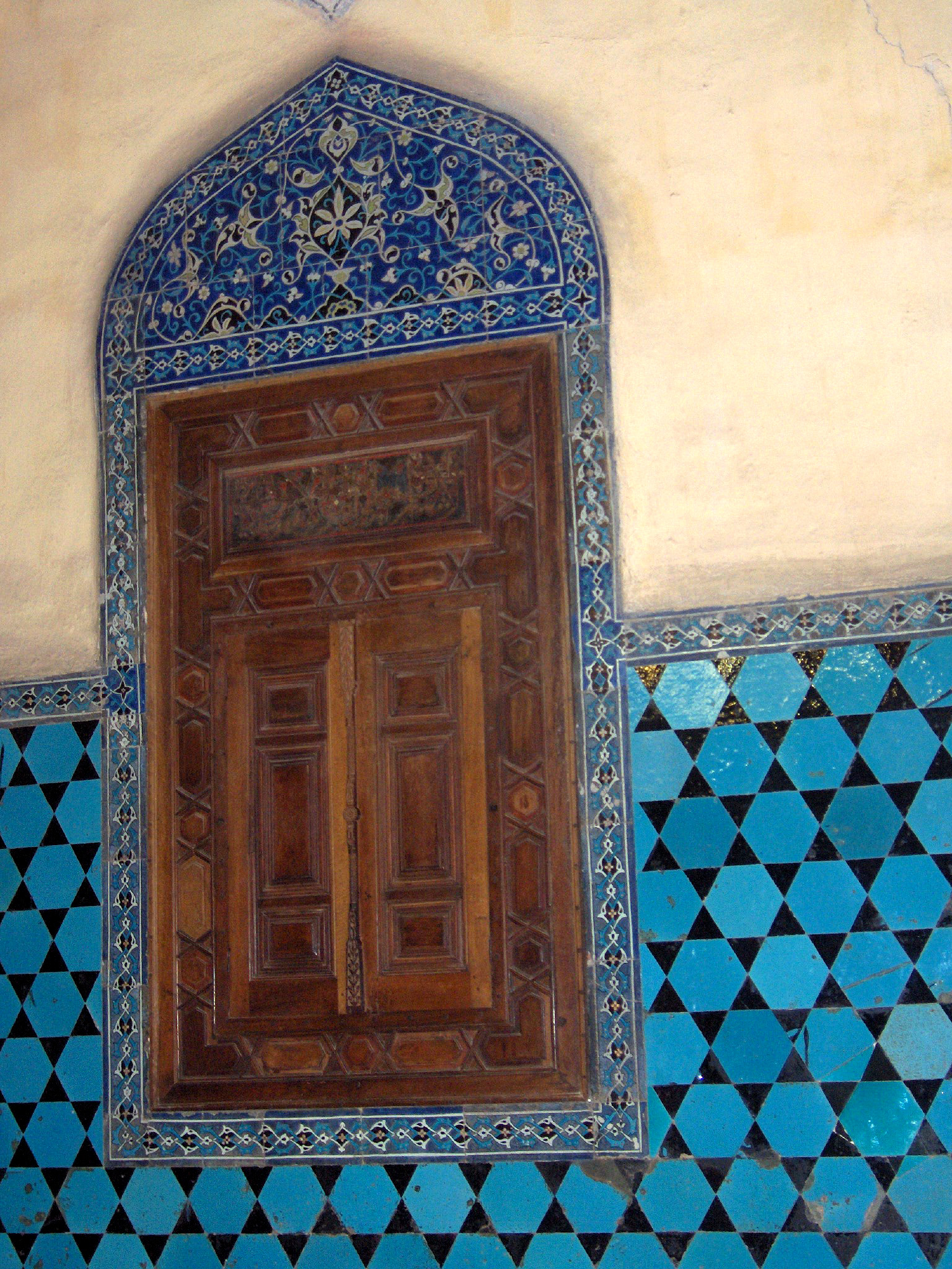 Interior view of the Yeşil Cami (Green mosque) of Bursa, Turkey